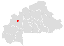 The map shows the location of the town of Dedougou in Burkina Faso.